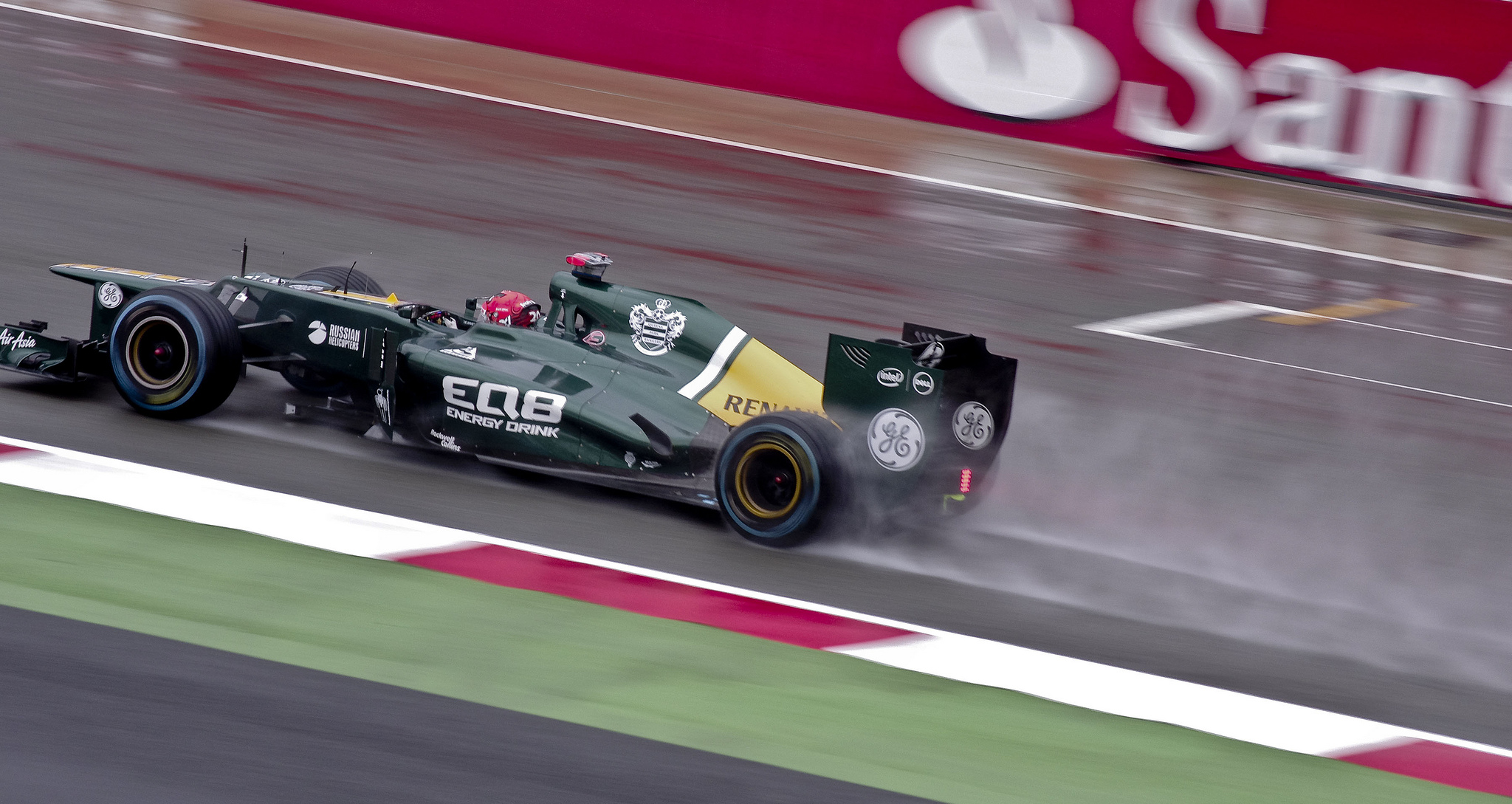 Date Taken:- 06/07/12 Image Shows:- Caterham Formula One (F1) team driver Heikki Kovailainen (Finland) tests the heavy conditions at the first practice of the British Grand Prix at Silverstone, Northampton, United Kingdom (UK).